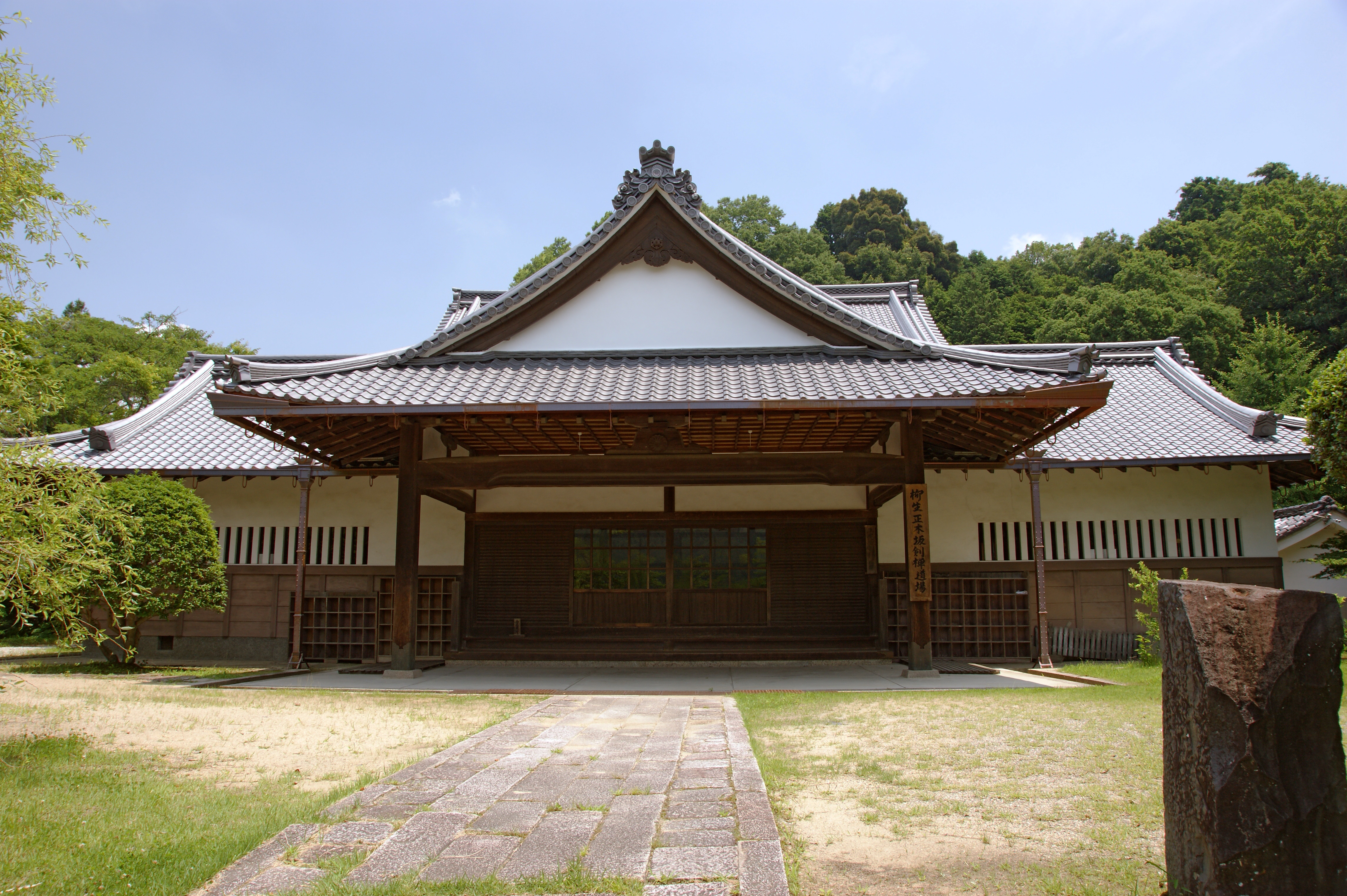 Masakizaka-kenzen-dojo in Nara, Nara prefecture, Japan